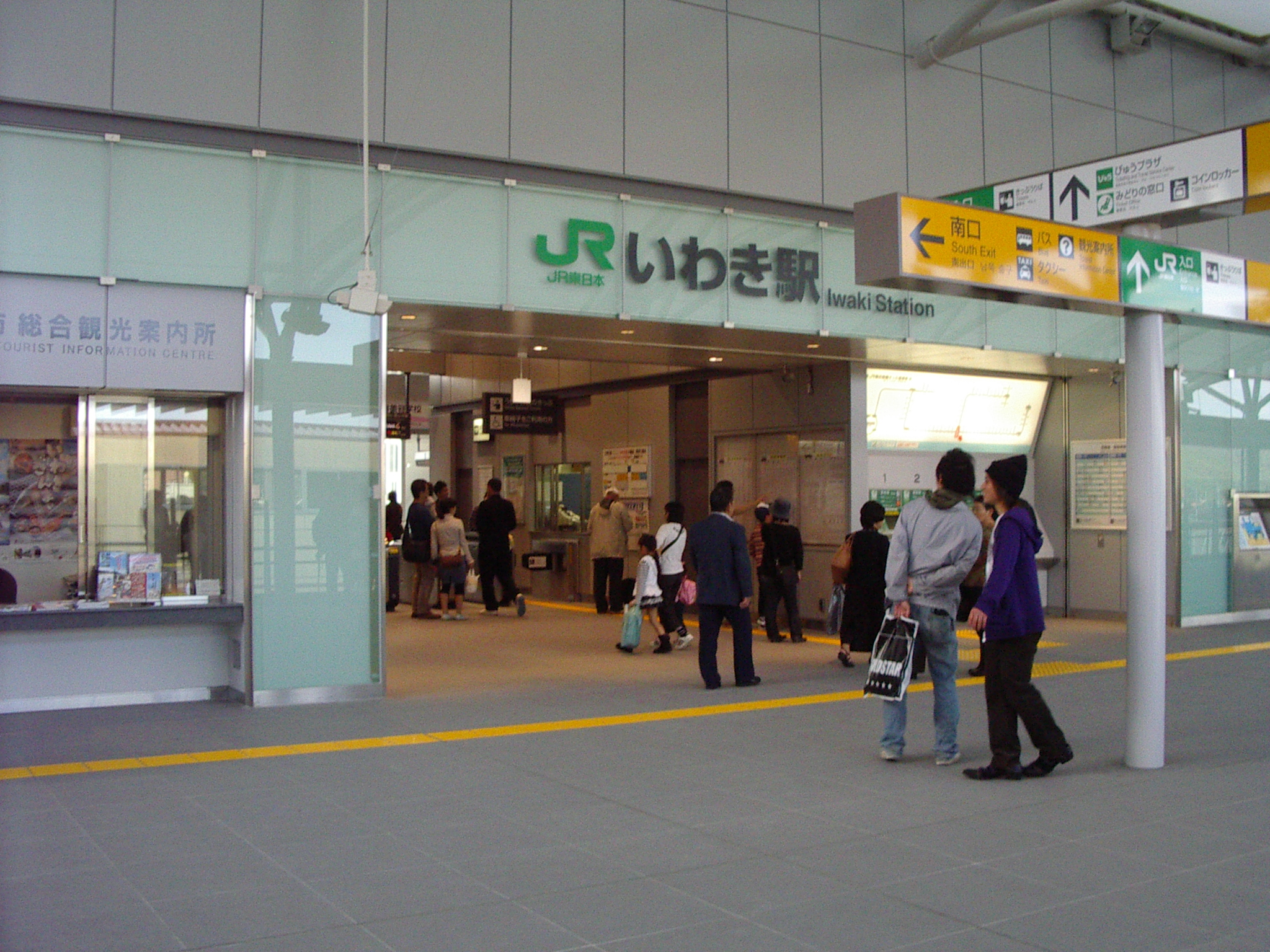 JR Iwaki station on JR Joban line and Banetu-tou Line. This station is located at Iwaki, Fukushima.